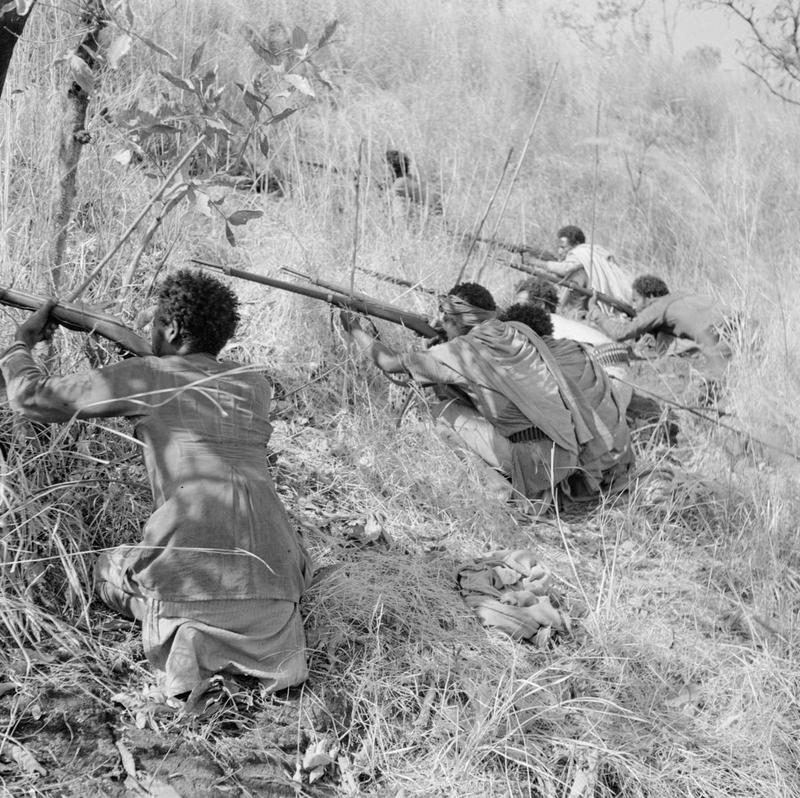 Abyssinian Patriots Attacking the Fort of Derba Marcos Part of a sequence of images showing Patriot Troops attacking the fort before capturing it. They take every advantage of the natural cover, even in trees.